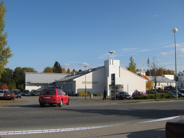 Kauhajoen koti- ja laitostalousoppilaitos school few hours after Kauhajoki shooting incident.